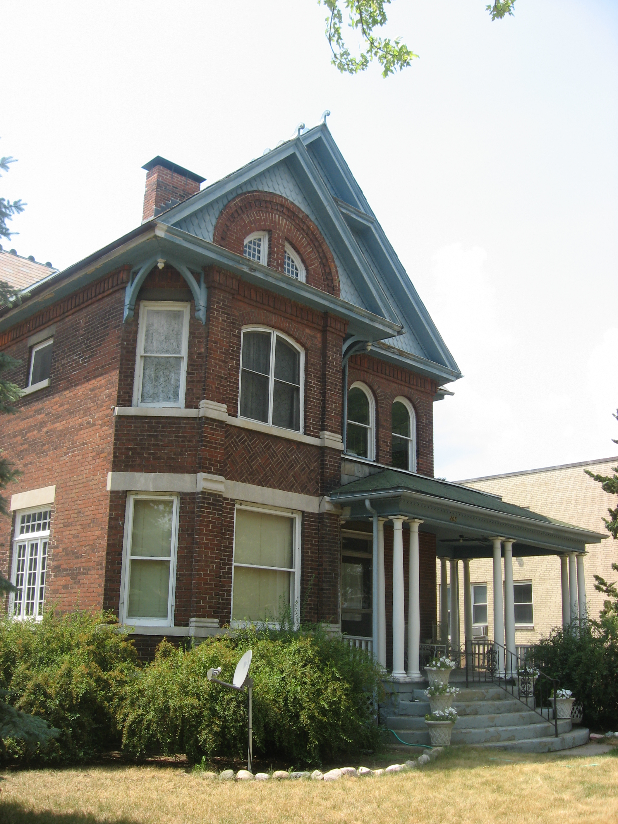 Front of the Martin Hoban House, located at 205 N. St. Louis Boulevard in South Bend, Indiana, United States. Built in 1896, it is listed on the National Register of Historic Places.